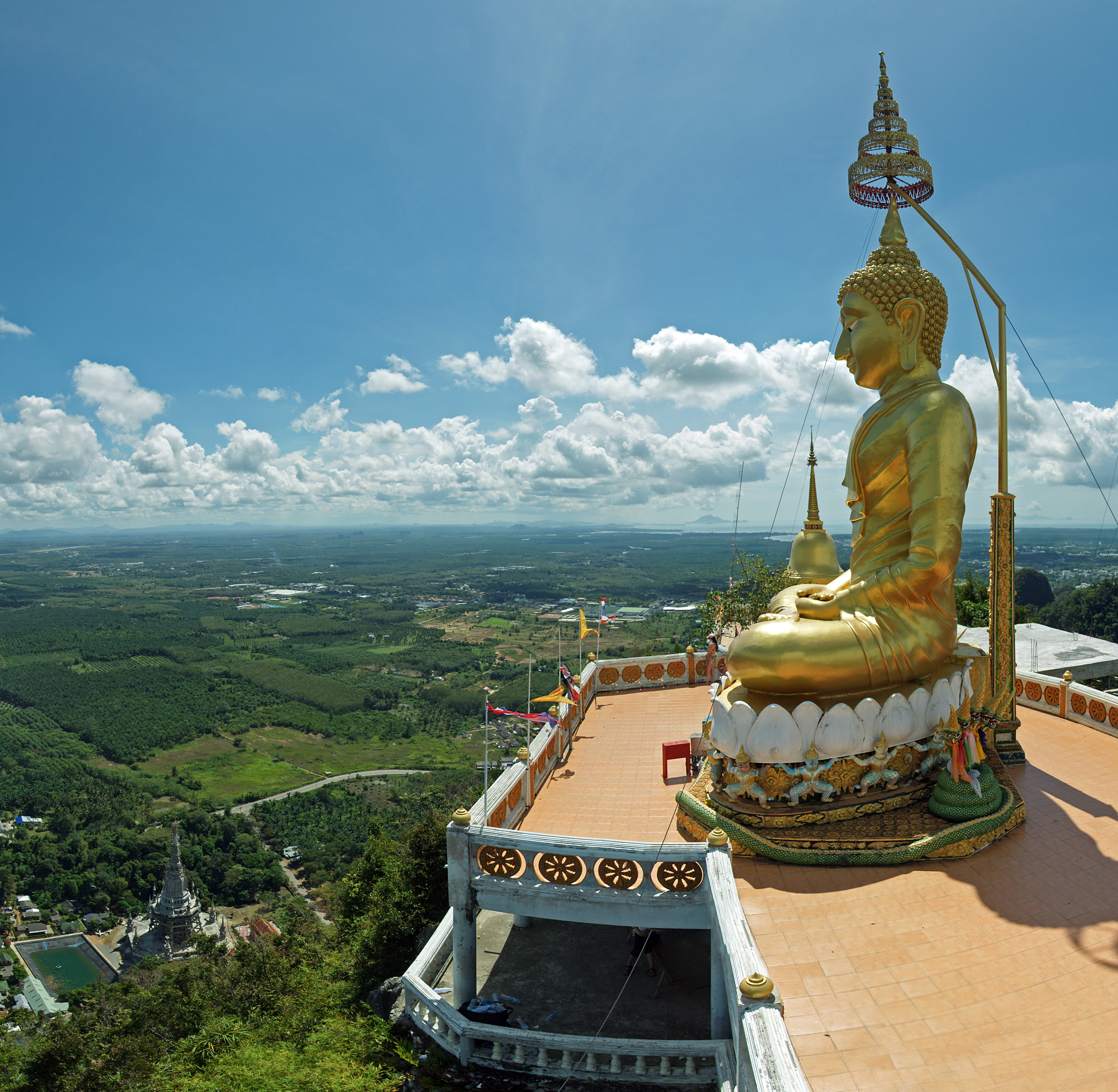 Tiger Cave Temple (Wat Tham Sua) in Krabi town, Krabi, Thailand.